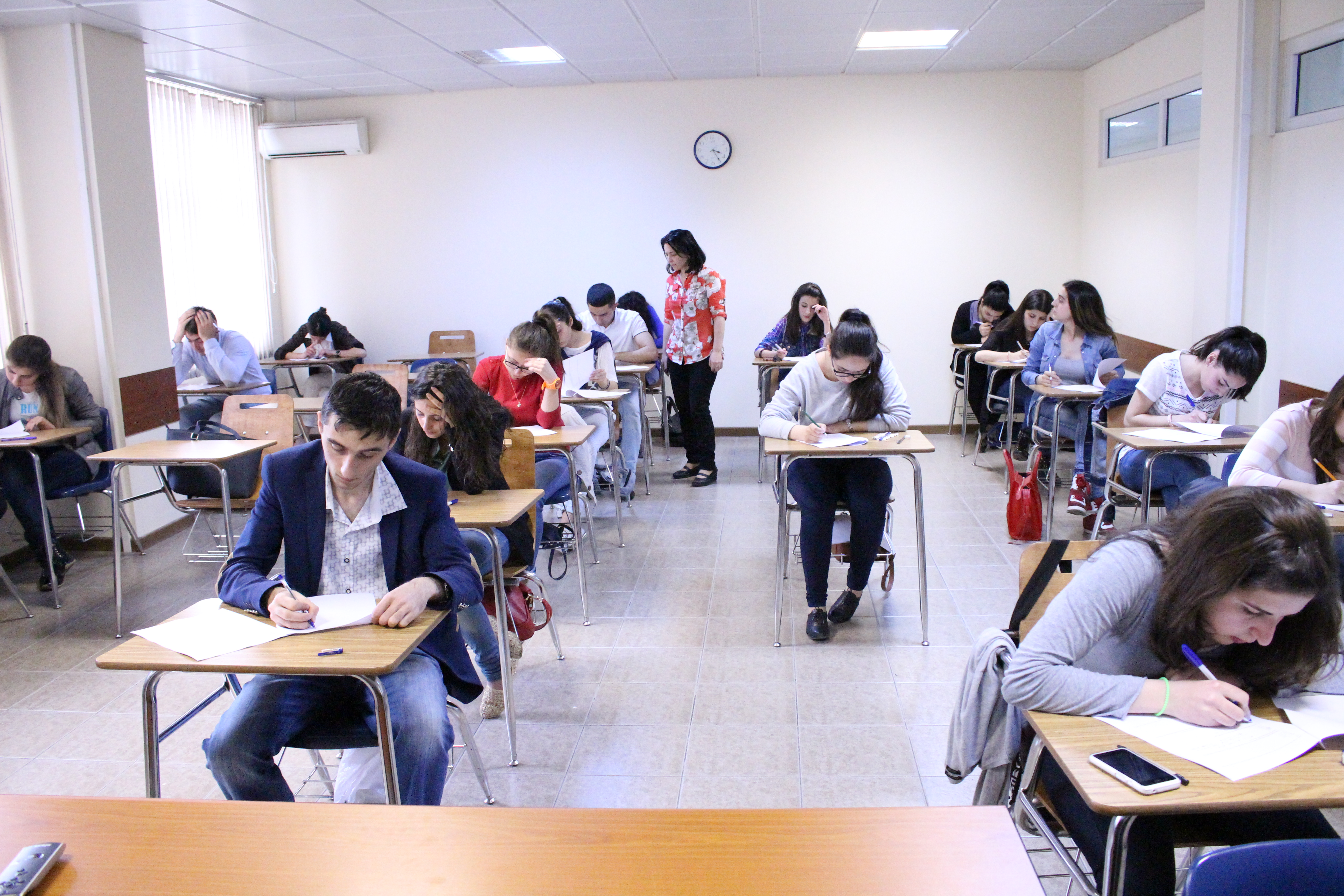 Admission Exam in ATC.